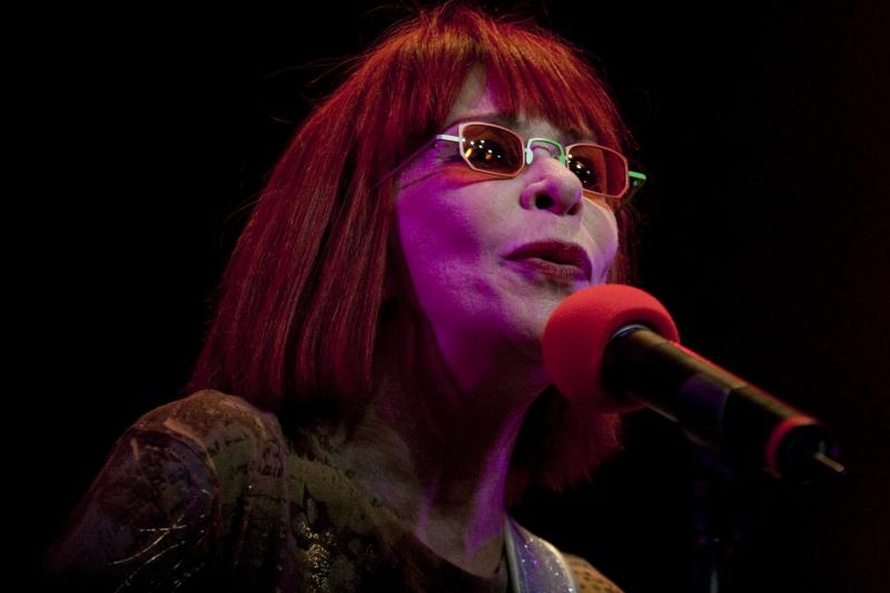 Brazilian musician Rita Lee onstage at Credicard Hall, Sao Paulo.